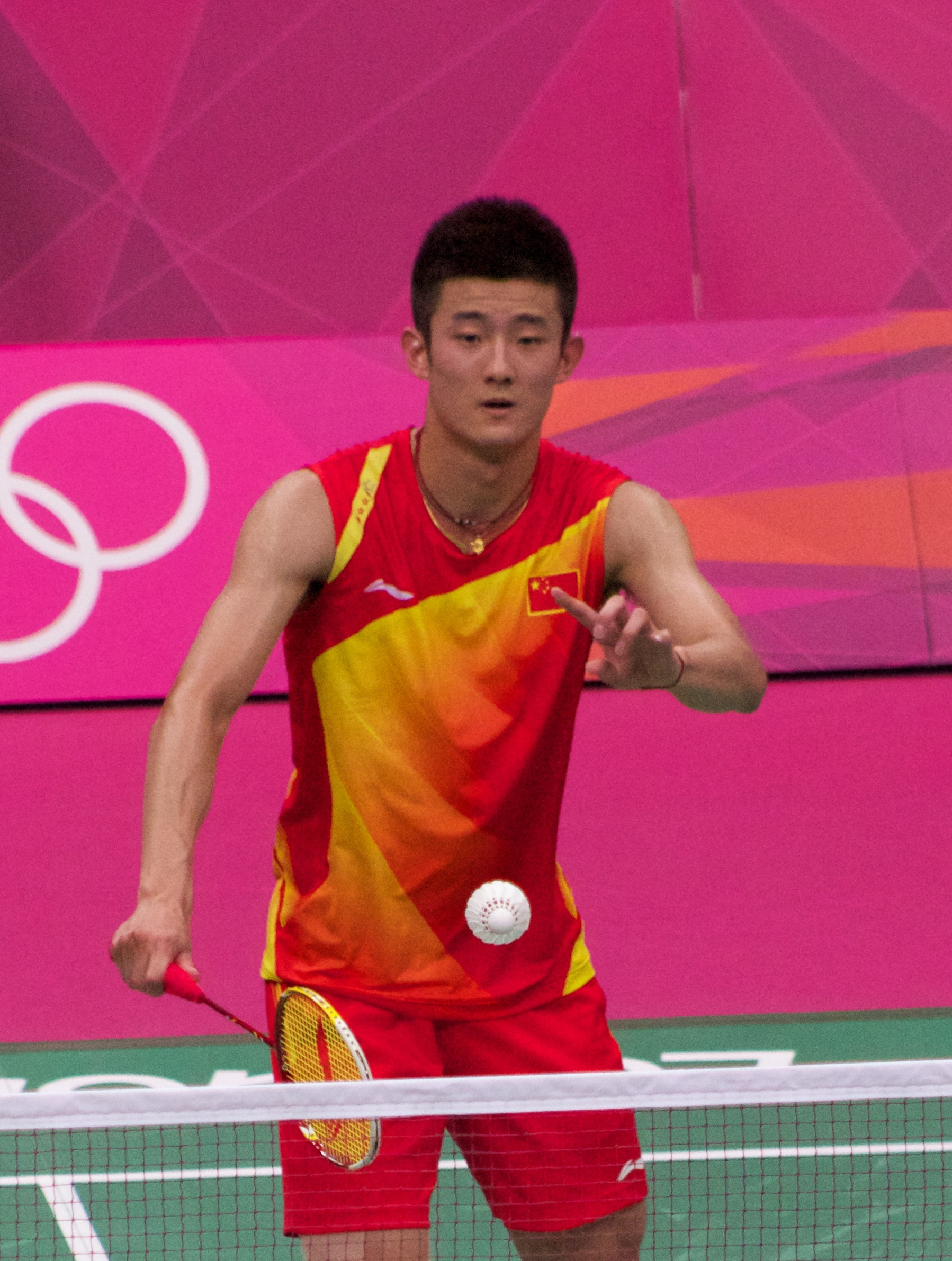 Cropped version of File:Chen Long and Lee Chong Wei IMG 2300.jpg